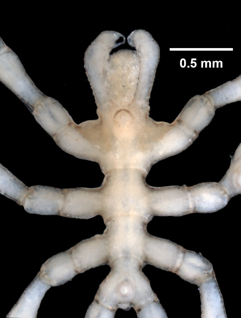 PRESERVED_SPECIMEN; ; ; 70% alc.; microslide; Det. by: C. A. Child; GM Image; Gray Museum; IZ number 77274; lot count 1; Microslide 01, balsam, whole mount; original catalog number GM 6232; 1969-07-21T00:00:00Z